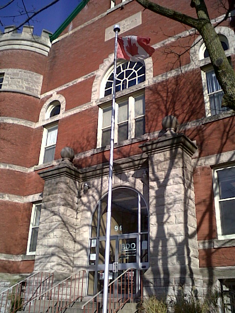 Old Woodstock Armoury on Graham Street.